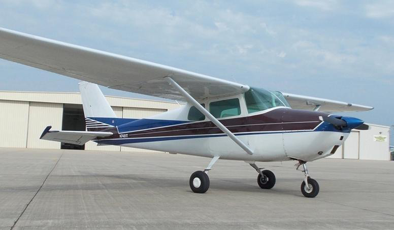 1960 Cessna 172A, FAA registration N7481T at Anderson airport, Indiana, USA